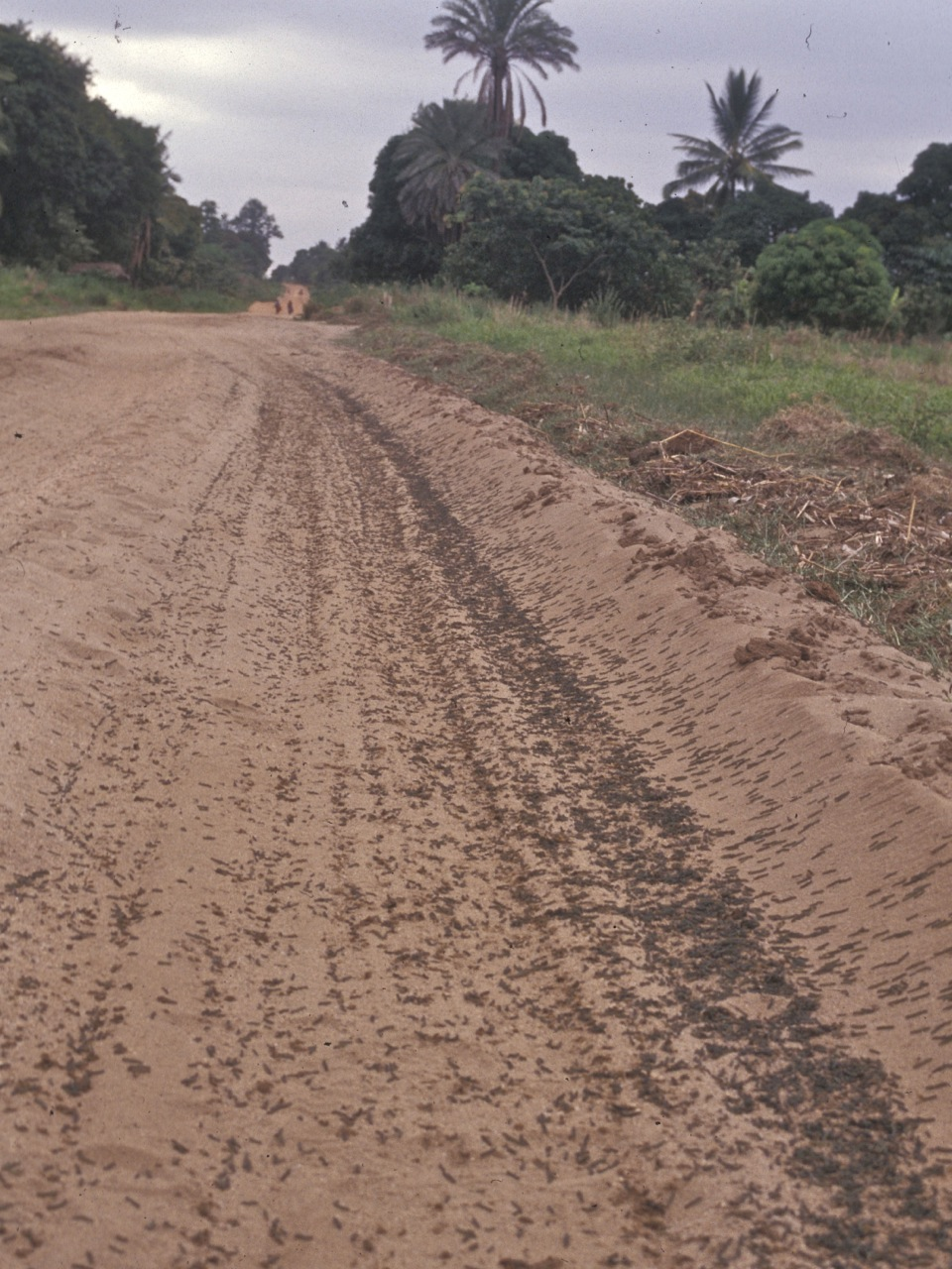 African armyworms marching along a road in Kilosa District, Tanzania